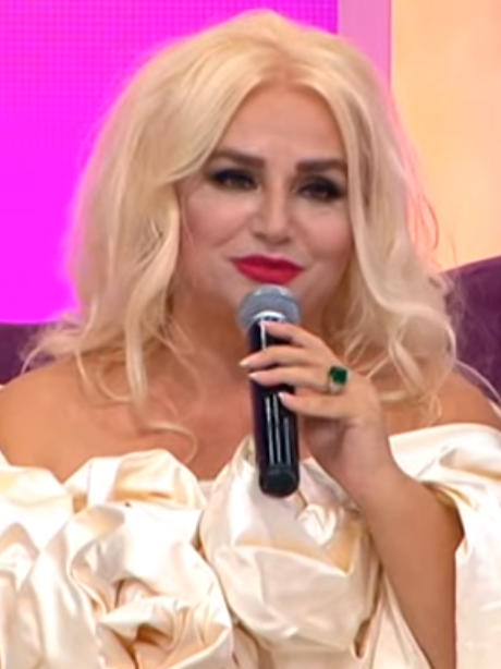 Turkish actress Banu Alkan during a TV-show called İşte Benim Stilim.